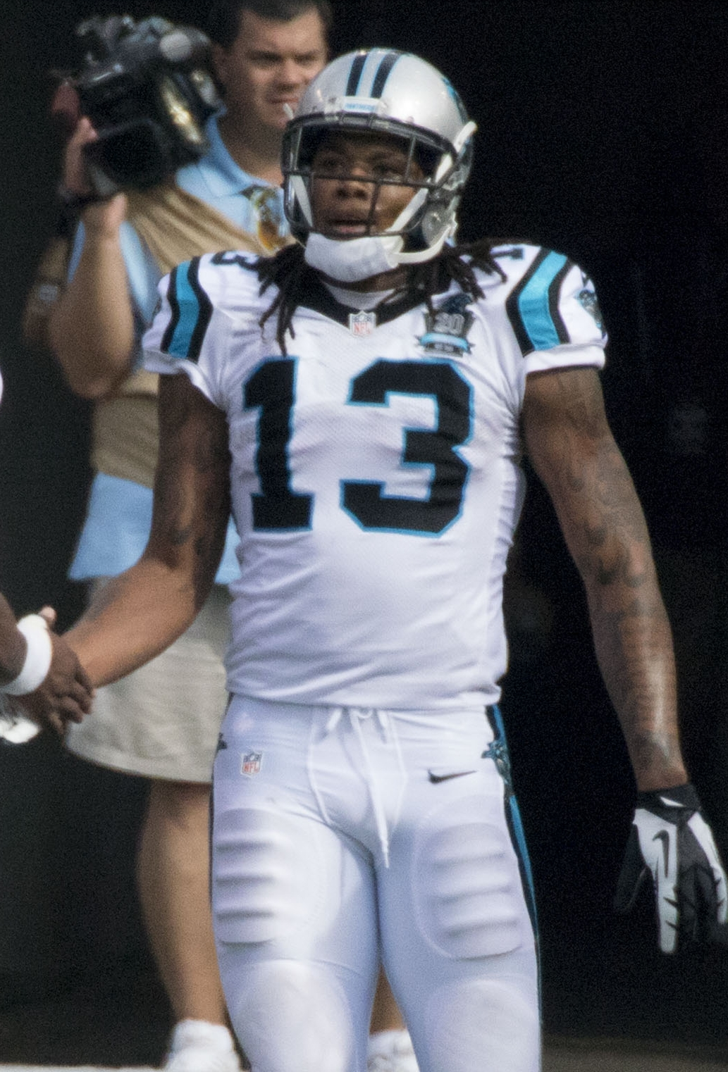 Kelvin Benjamin 9/28/14